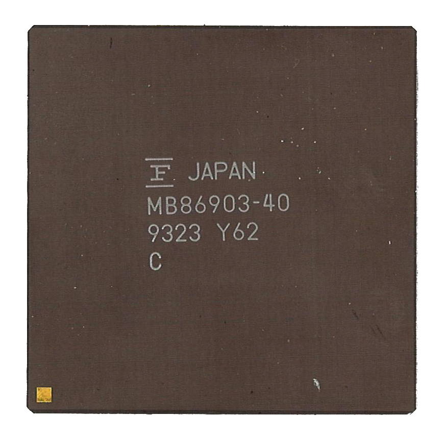 IC photo